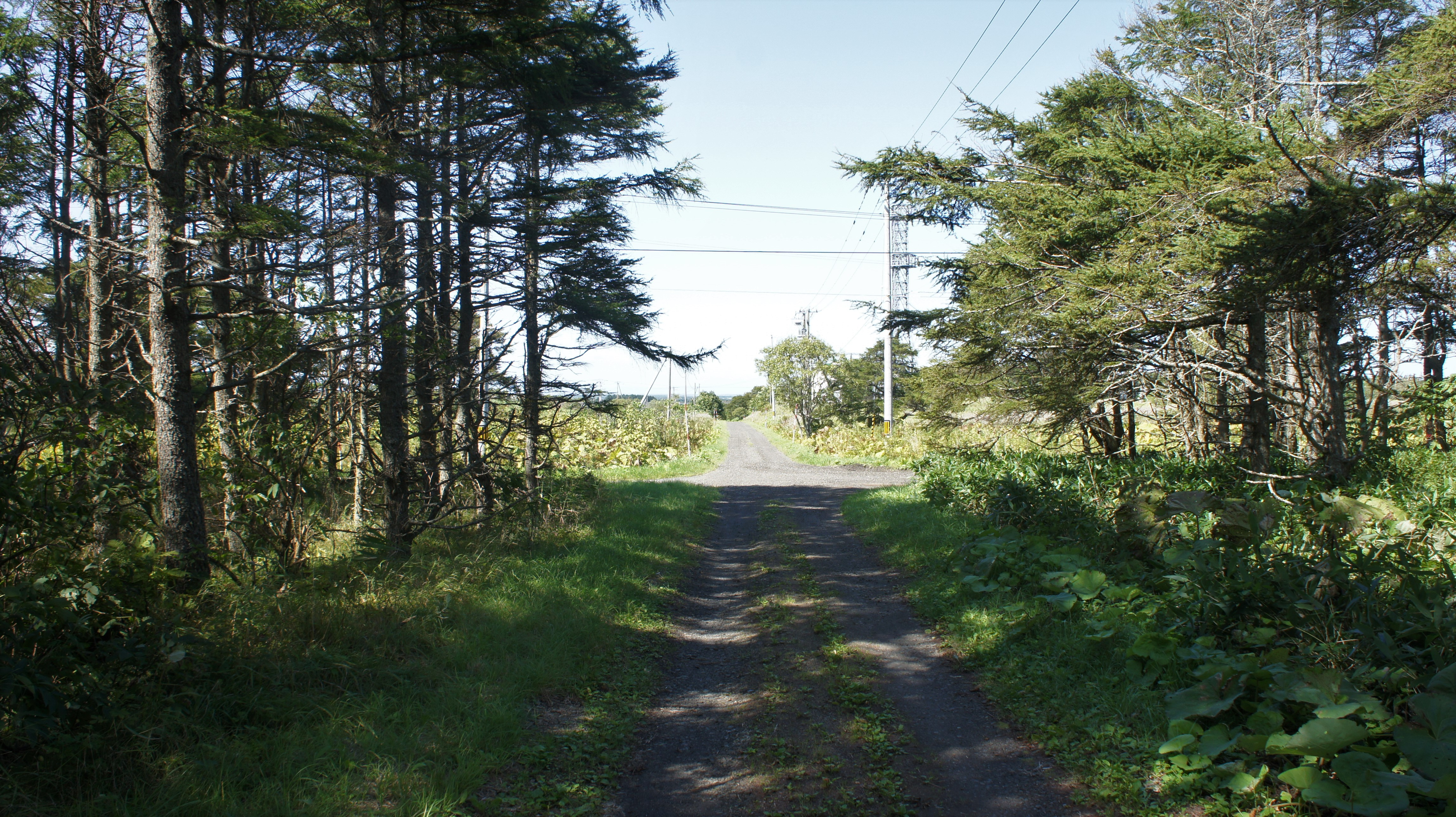 State of JR Nemuro-Main-Line Hattaushi Station in front of the station